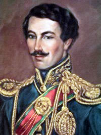 Jose maria perez de urdinena